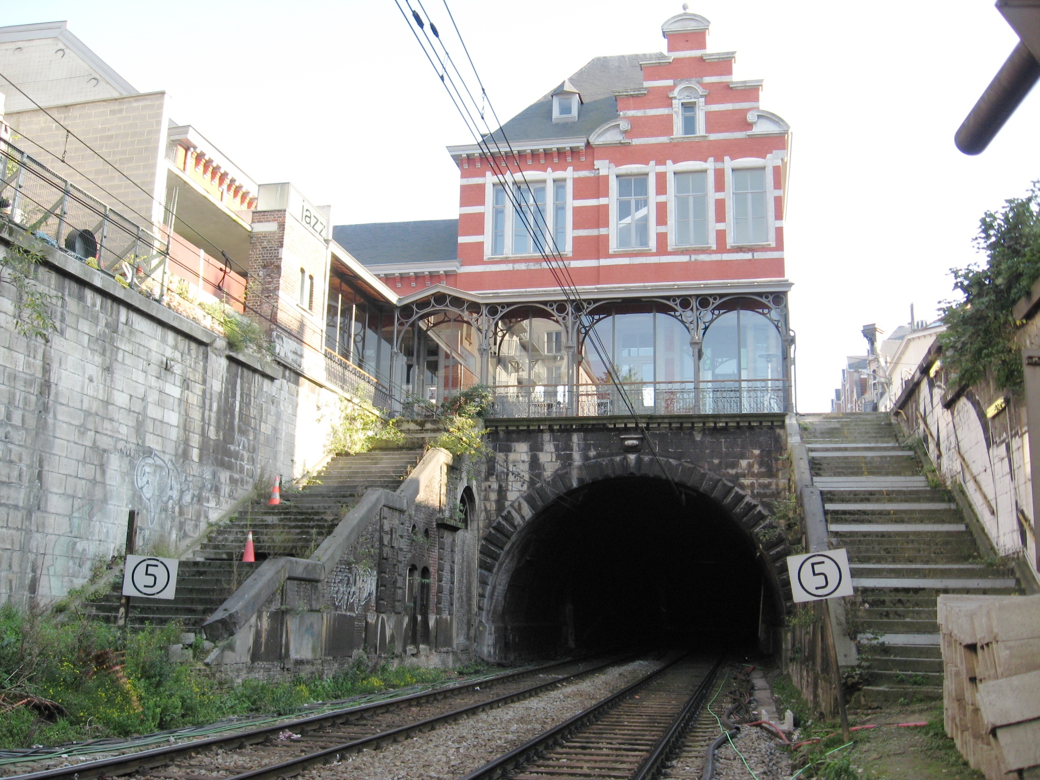 Back side with gangway and stairs of the former train station Leuvensesteenweg in Sint-Joost-ten-Node, Brussels Region, Belgium